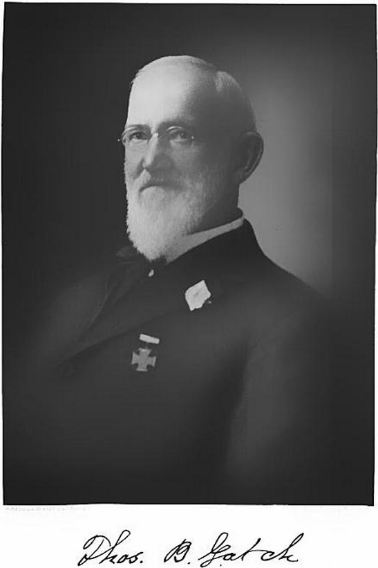 Picture of Major Thomas Benton Gatch, including signature